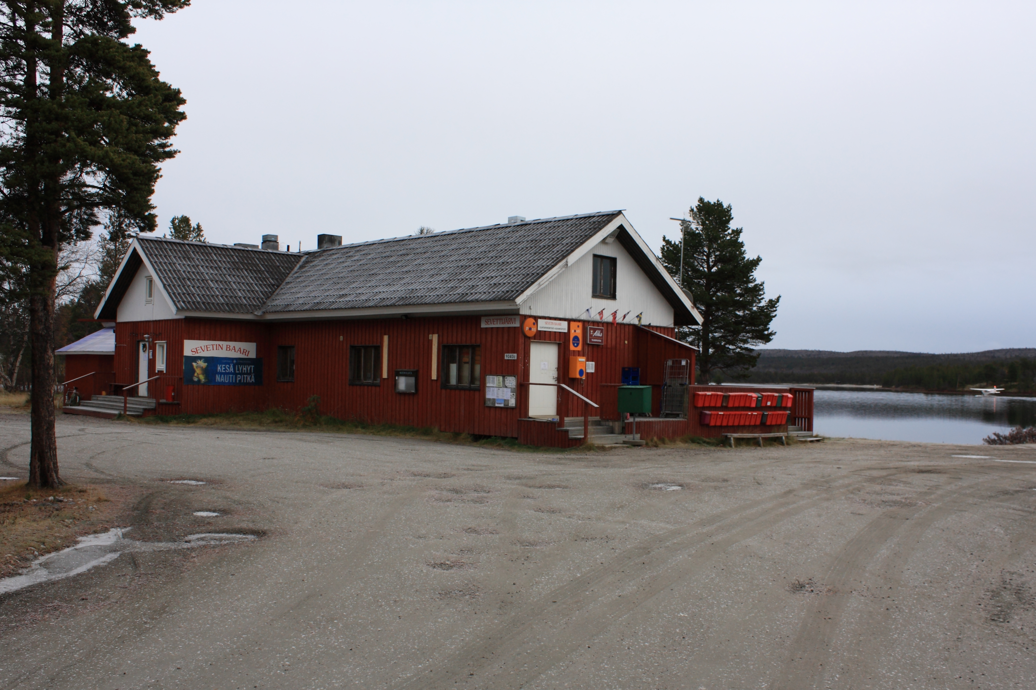 Sevetin Baari bar in Sevettijärvi, Inari, Finland. An aeroplane is taxing for take off in background.